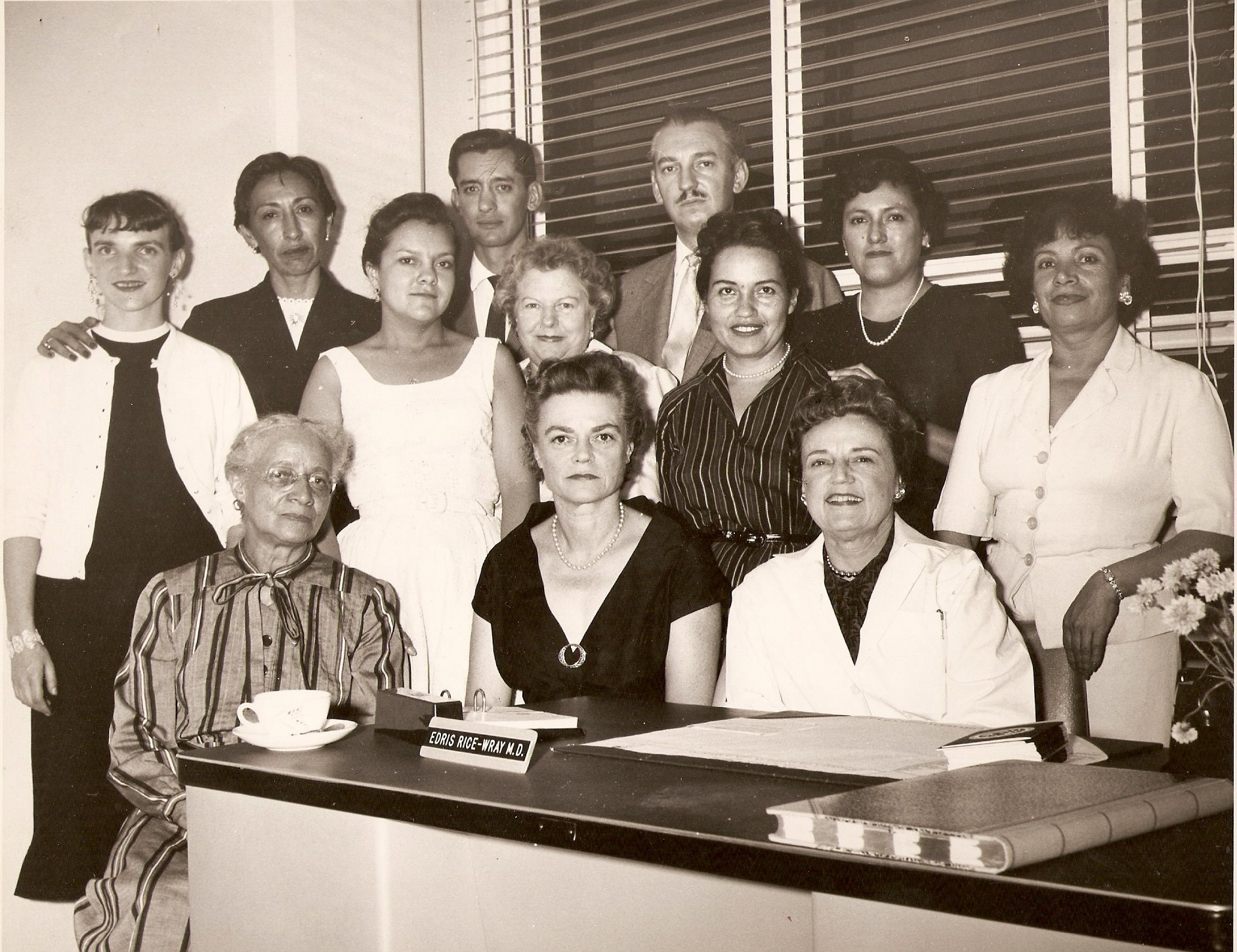 Dr. Rice-Wray whit her support team